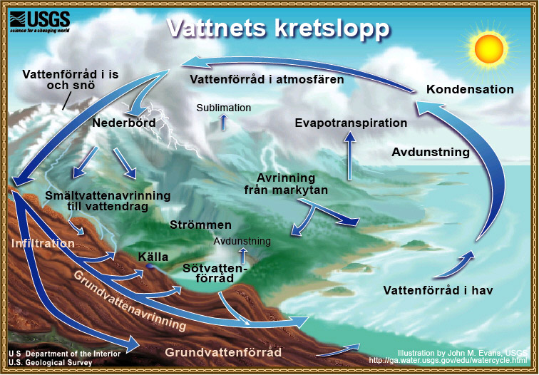 Description of the water cycle in Swedish